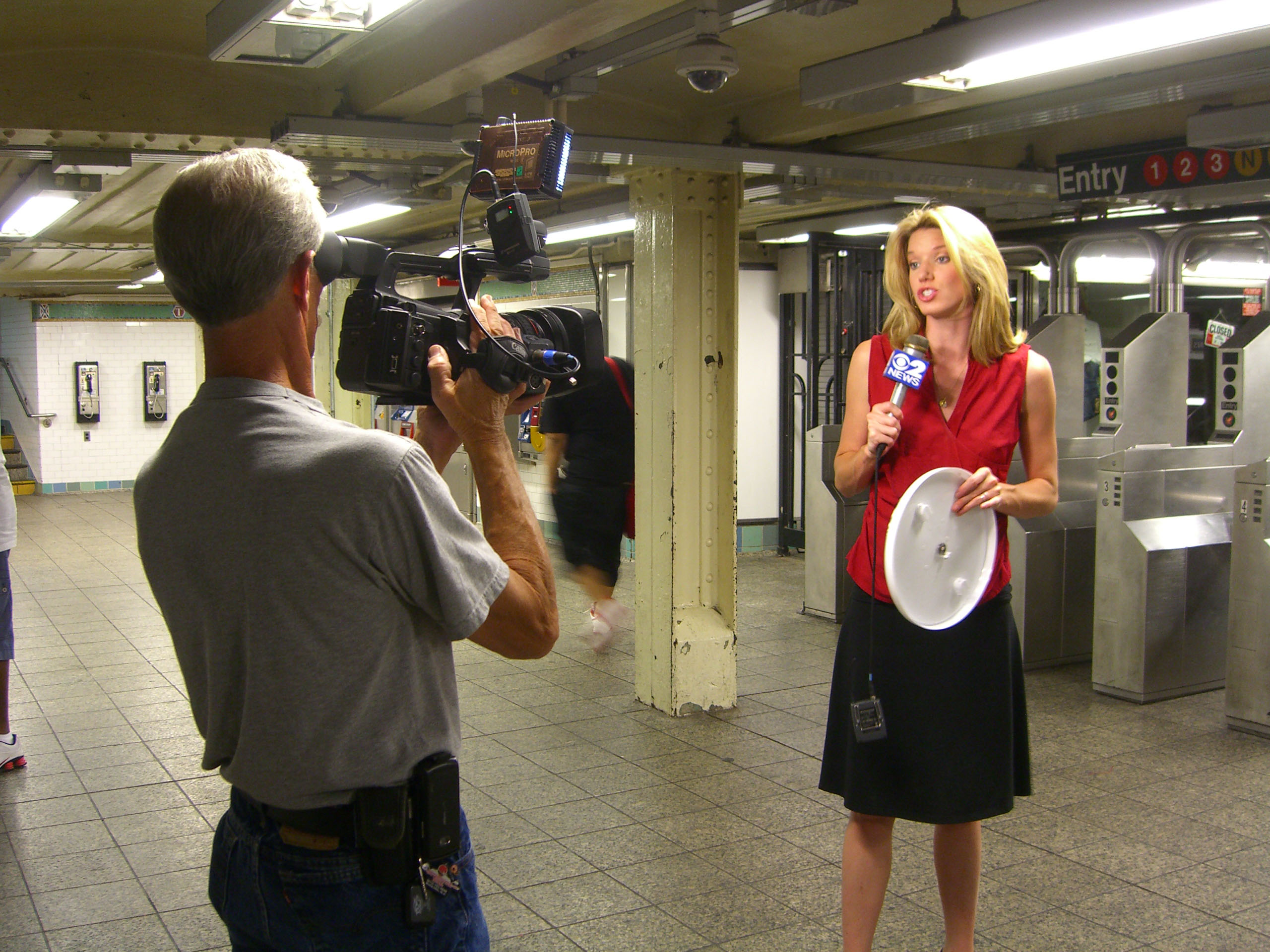 New York's WCBS-TV reporter Kathryn Brown reports on the Summer 2012 North American heat wave from the 42nd Street Times Square Subway station early in the morning of July 18, 2012. This photo was created by Luigi Novi. It is not in the public domain, and use of this file outside of the licensing terms is a copyright violation.